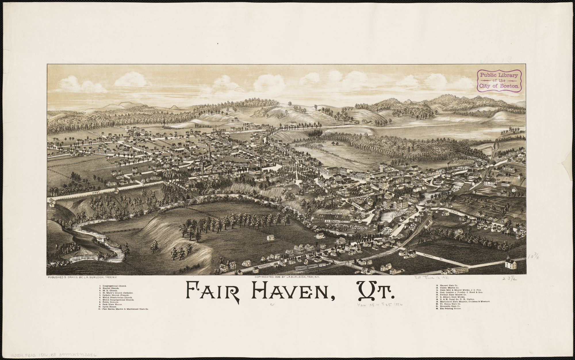 Zoom into this map at . Author: Burleigh, L. R. Publisher: L.R. Burleigh Date: 1886. Location: Fair Haven (Vt. : Town) Scale: Not drawn to scale. Call Number: G3754.F3A3 1886.B8